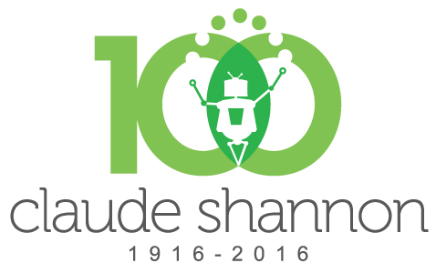 Claude Shannon Centenary Logo Claude_Shannon#Shannon_Centenary